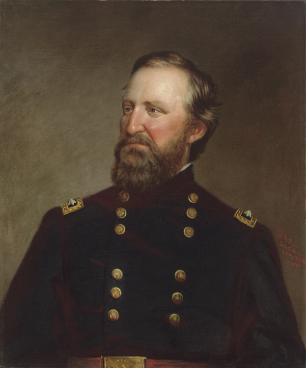 Born Delaware County, Ohio Affectionately called Old Rosy by his troops, William S. Rosecrans proved to be one of the North's best strategists early in the war. In July 1861, Rosecrans's brigade won the Battle of Rich Mountain, Virginia, thus securing a Union foothold in territory that would ultimately become the state of West Virginia. His ability to maneuver the enemy was especially evident in the western theater, where he commanded the Army of the Cumberland in the Battle of Stones River (Murfreesboro, Tennessee). At Chickamauga, Georgia, in September 1863, however, his army suffered disaster when one of his orders was misconstrued. This allowed the enemy to attack through a wide gap in the federal line. The mistake cost Rosecrans his command and virtually ended his active service in the war. Frame: 92.7 x 80 x 7.6cm (36 1/2 x 31 1/2 x 3")